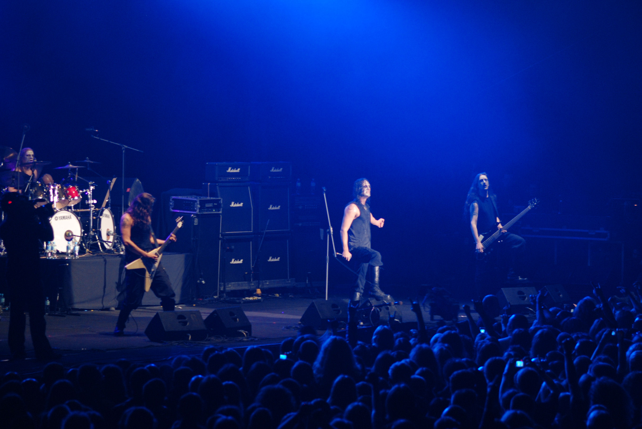 Marduk during Metalmania 2008 festival